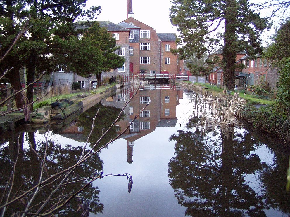 The Coldharbor mill reflected in the mill pond.